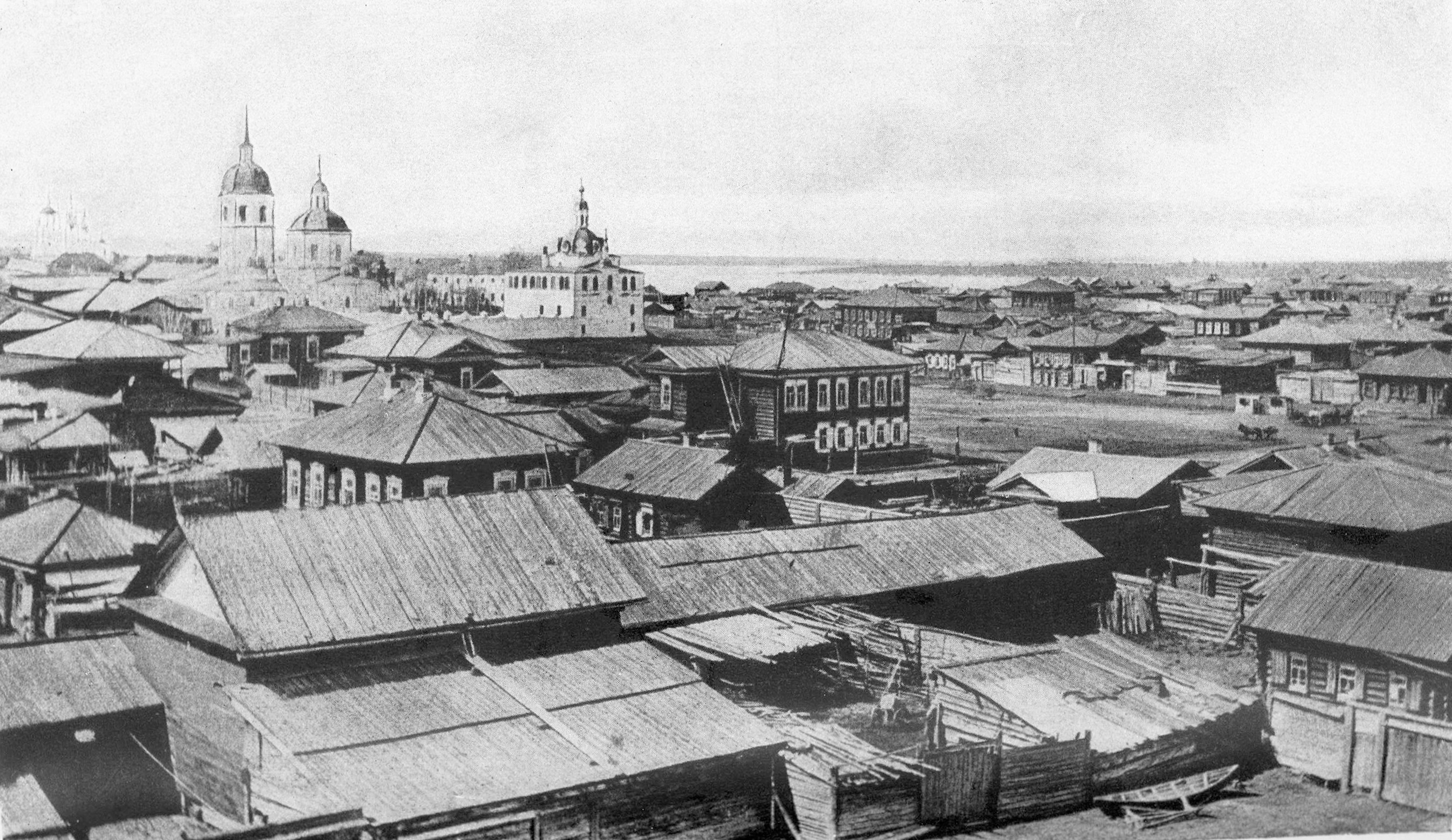 Yeniseisk